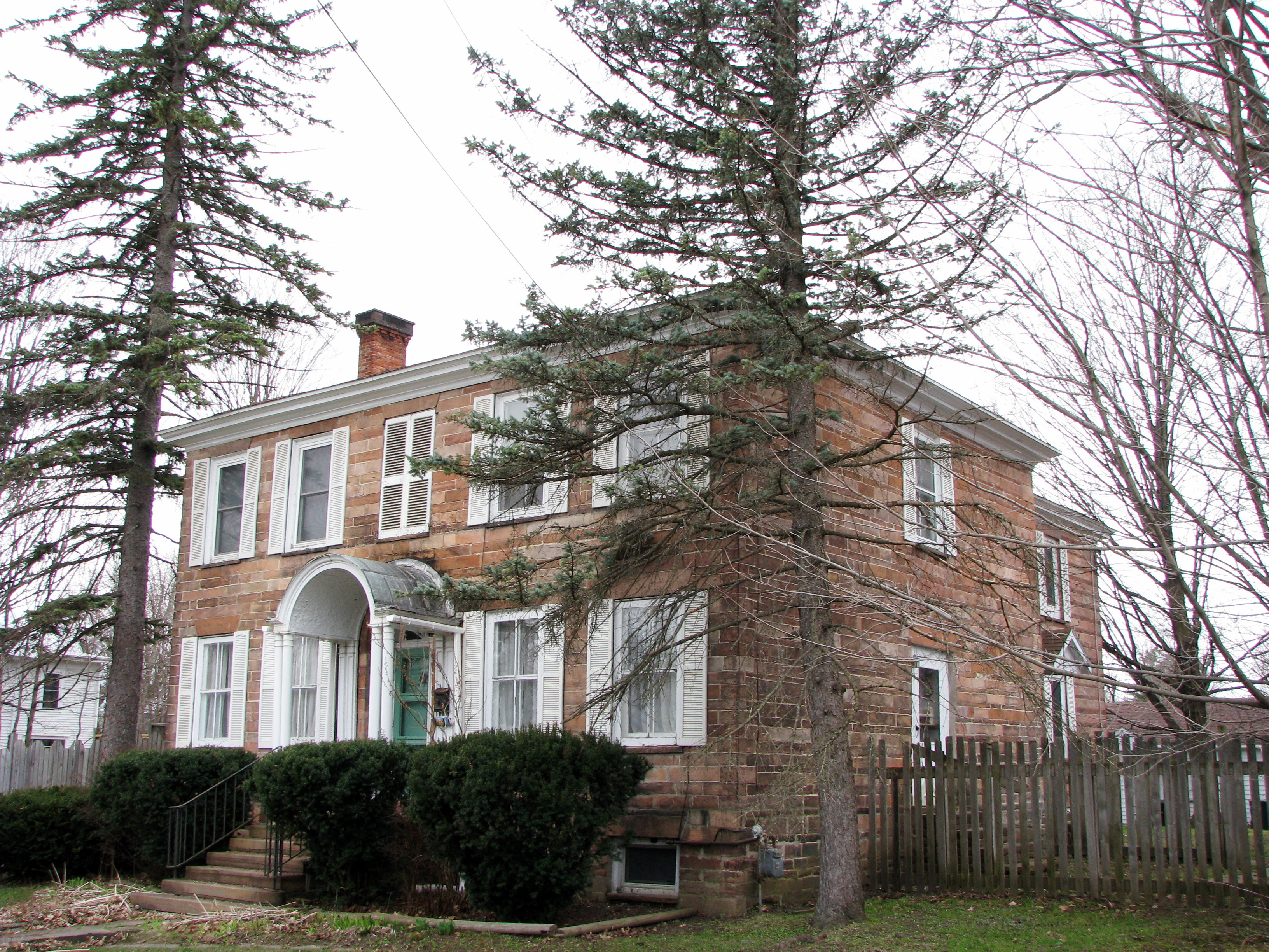 Jonathan Wallace House, 99 Market Street, Potsdam, New York